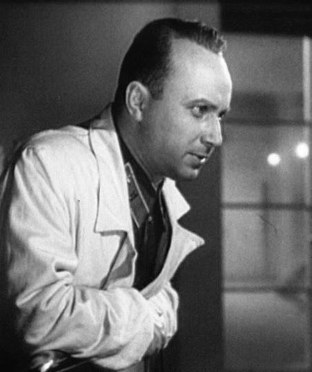 Petr Berezov in Chkalov (1941)